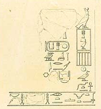 Drawing of a rock inscription of Djedkare Isesi from the Wadi Maghara, made by Karl Richerd Lepsius.